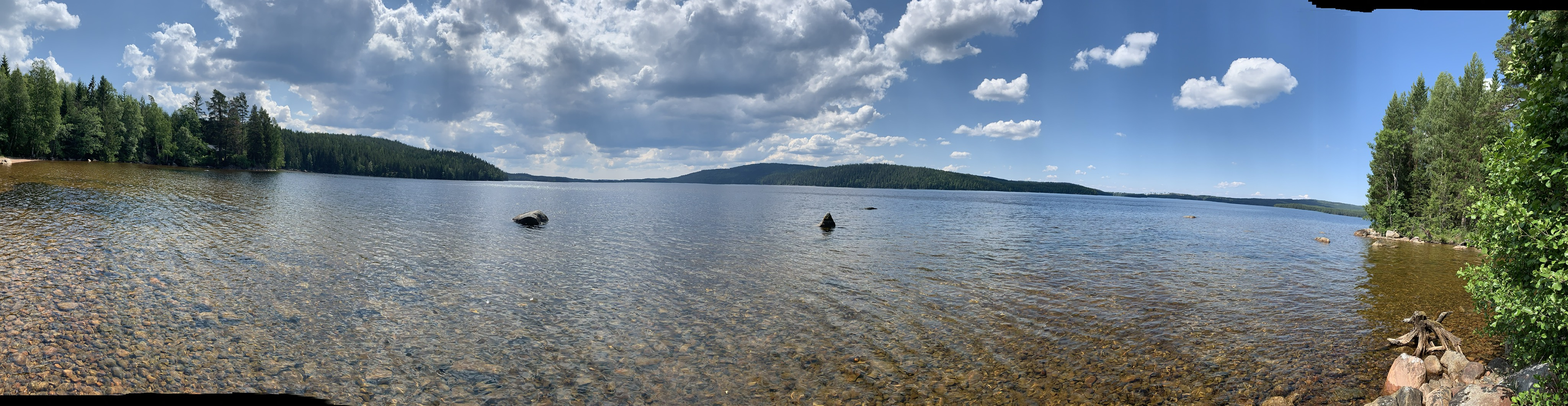 Panorama of the lake Stor-Ullen in Hagfors municipality. Viewed from a place near Ullshyttan.